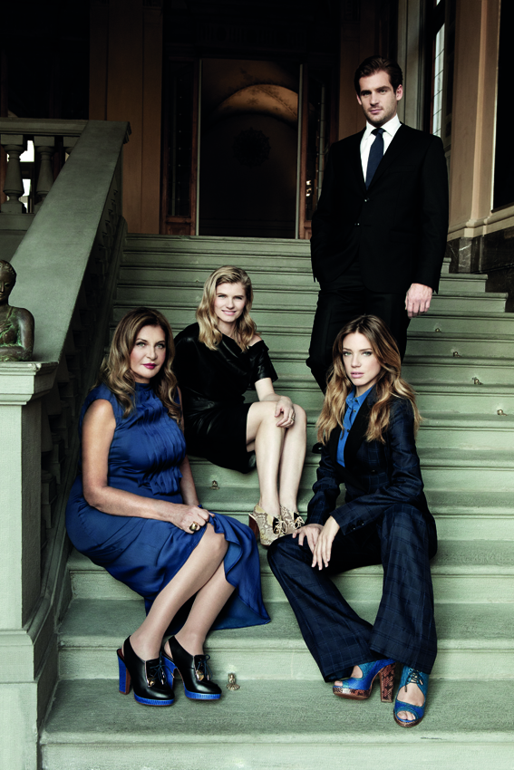 Photo of the Trussardi family.